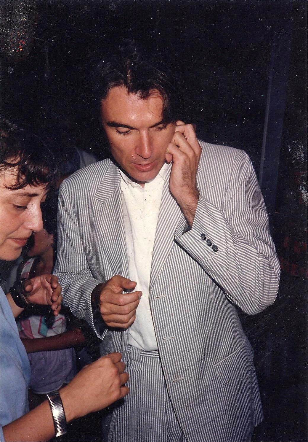 Denise Barroso (Lonita Renaux) e David Byrne at Madame Satã, night club, São Paulo, 1986.